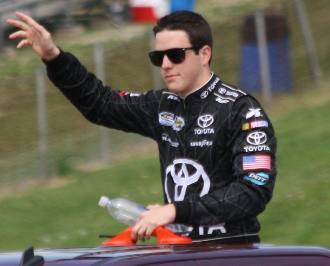 NASCAR driver Alex Bowman at the 2013 Johnsonville Sausage 200 Nationwide Series race at Road America.